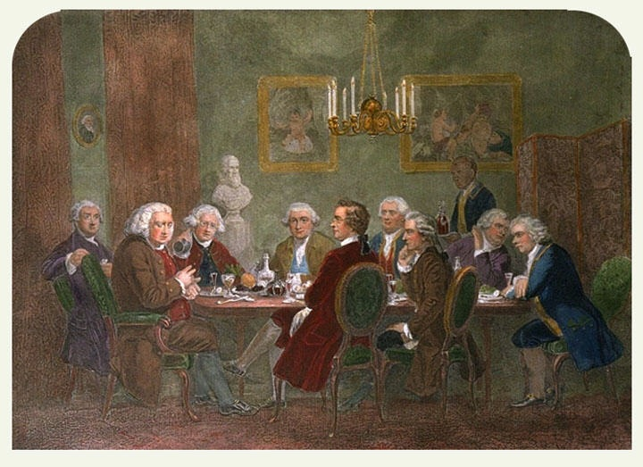 From left to right: James Boswell (1740–1795), biographer. Samuel Johnson (1709–1784), author and lexicographer. Sir Joshua Reynolds (1723–1792), painter. David Garrick (1717–1779), actor. Edmund Burke (1729–1797), statesman. Pascal Paoli (1725–1807), Corsican soldier. Charles Burney (1726–1814), musician. Thomas Warton (1728–1790), historian. Oliver Goldsmith (1728–1774), writer.